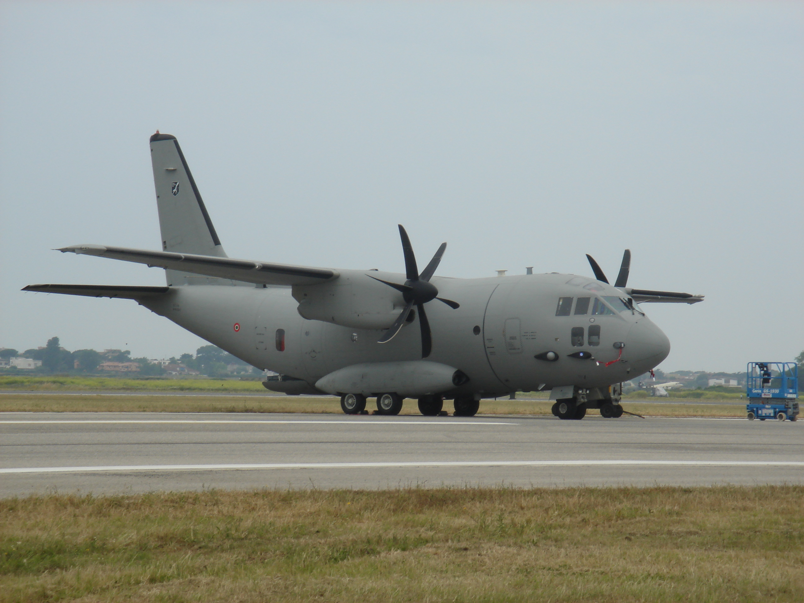 the new italian cargo aircraft Alenia C-27J with the Centro Sperimentale Volo unit markings.